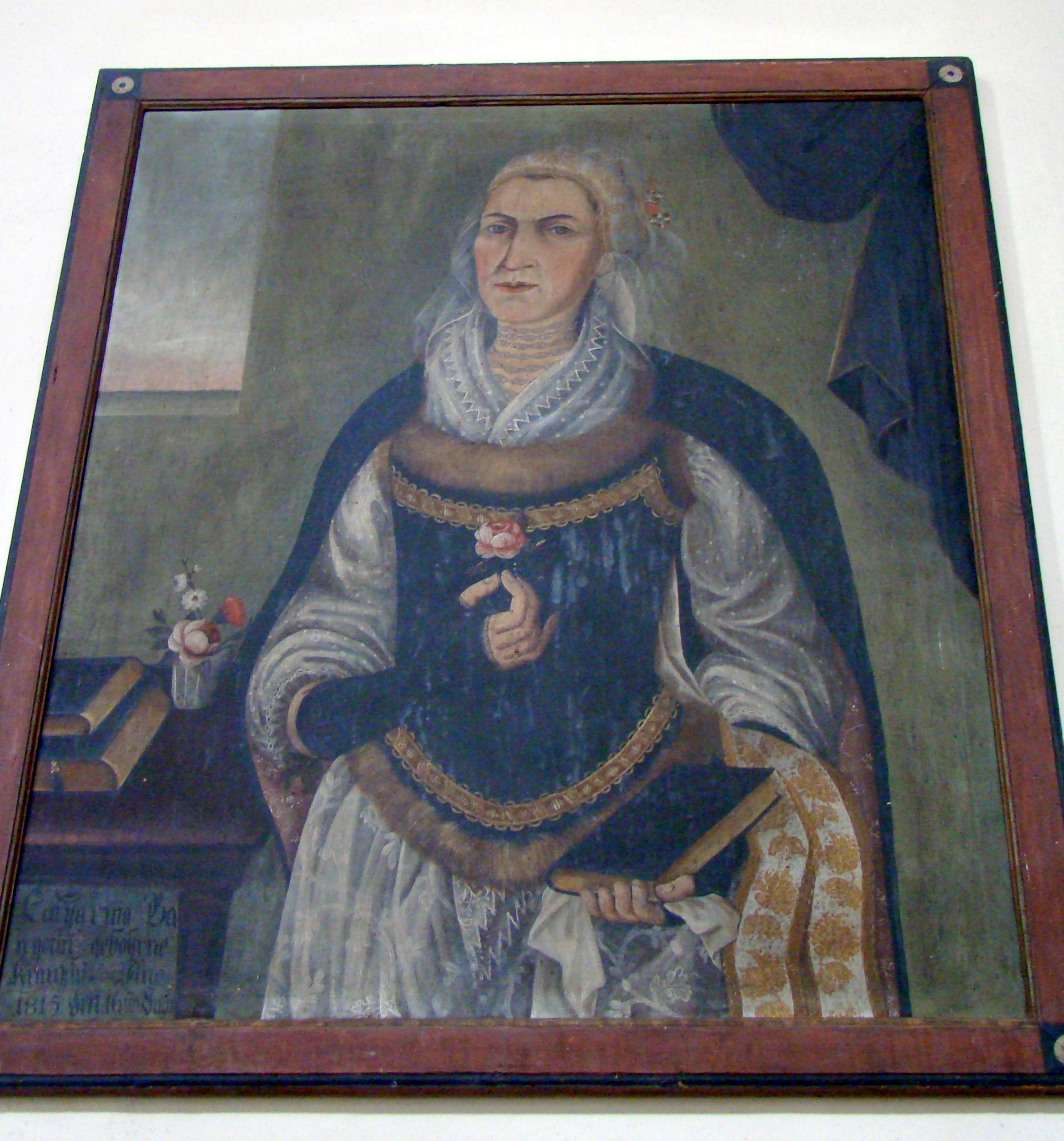 Lutheran church in Făgăraș, Brașov County, Romania